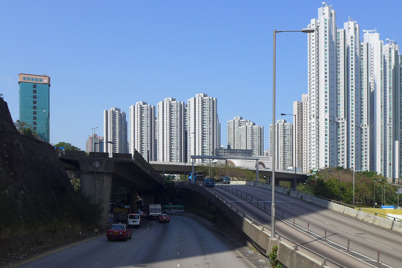 Texaco Road Reserved Bridge